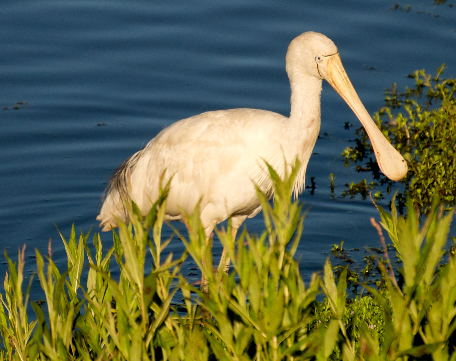 Yellow-billed Spoonbill, seen feeding at Lake Monger.